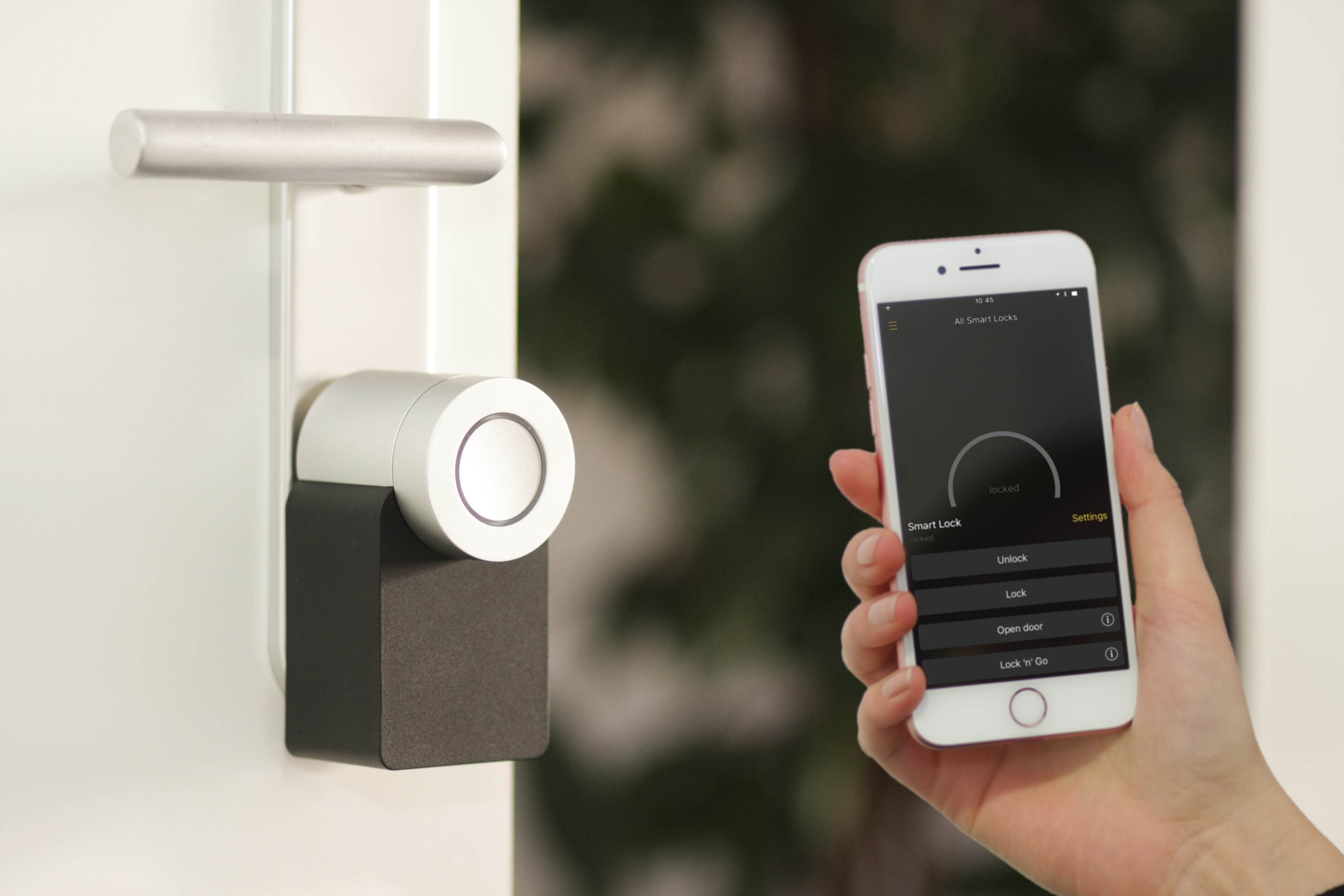 Nuki smart lock, controlled with iPhone